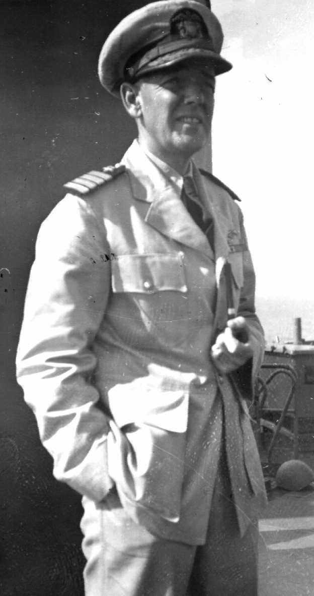 USS Audubon Captain John F. Goodwin